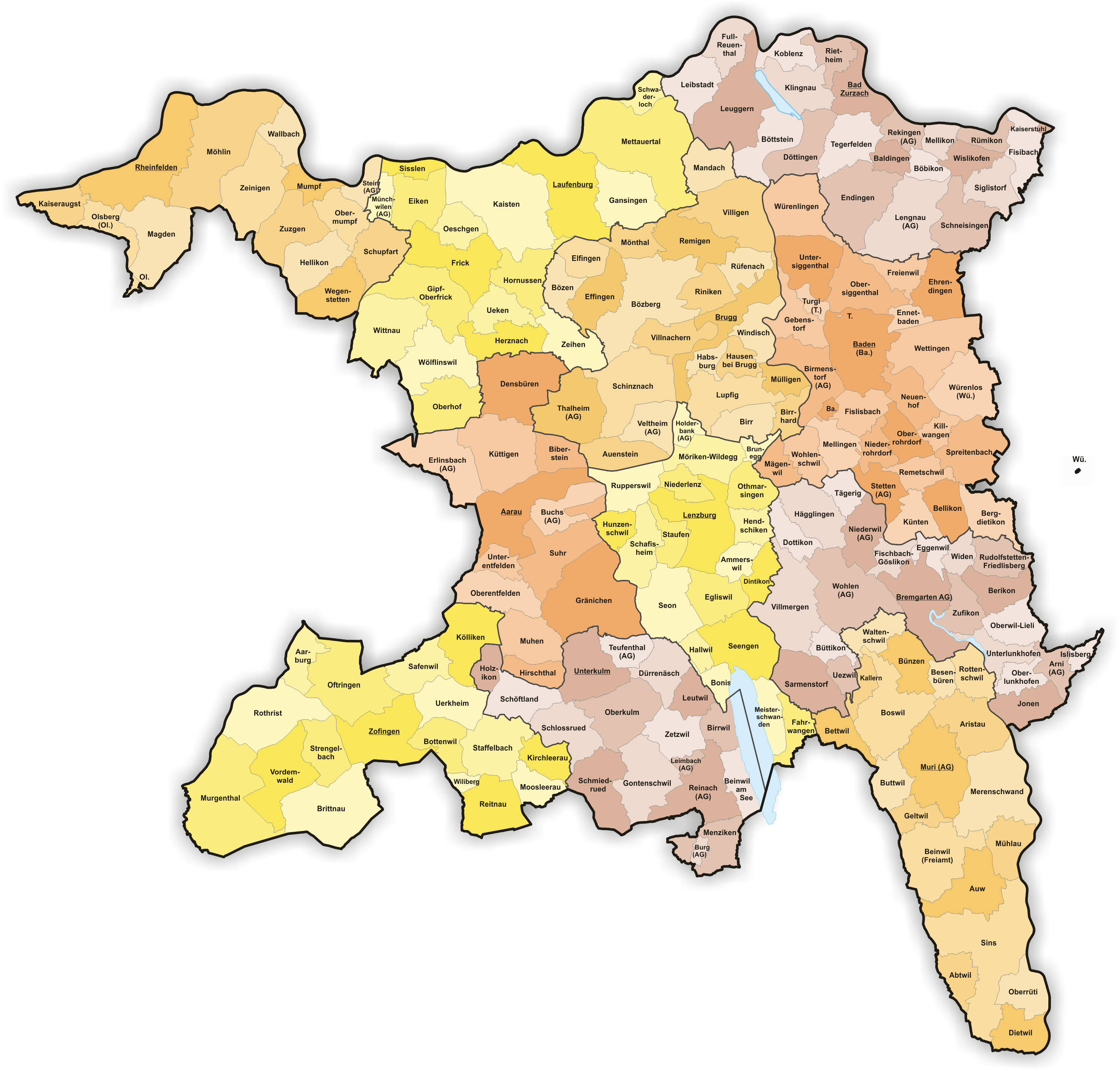 Municipalities in Canton Aargau